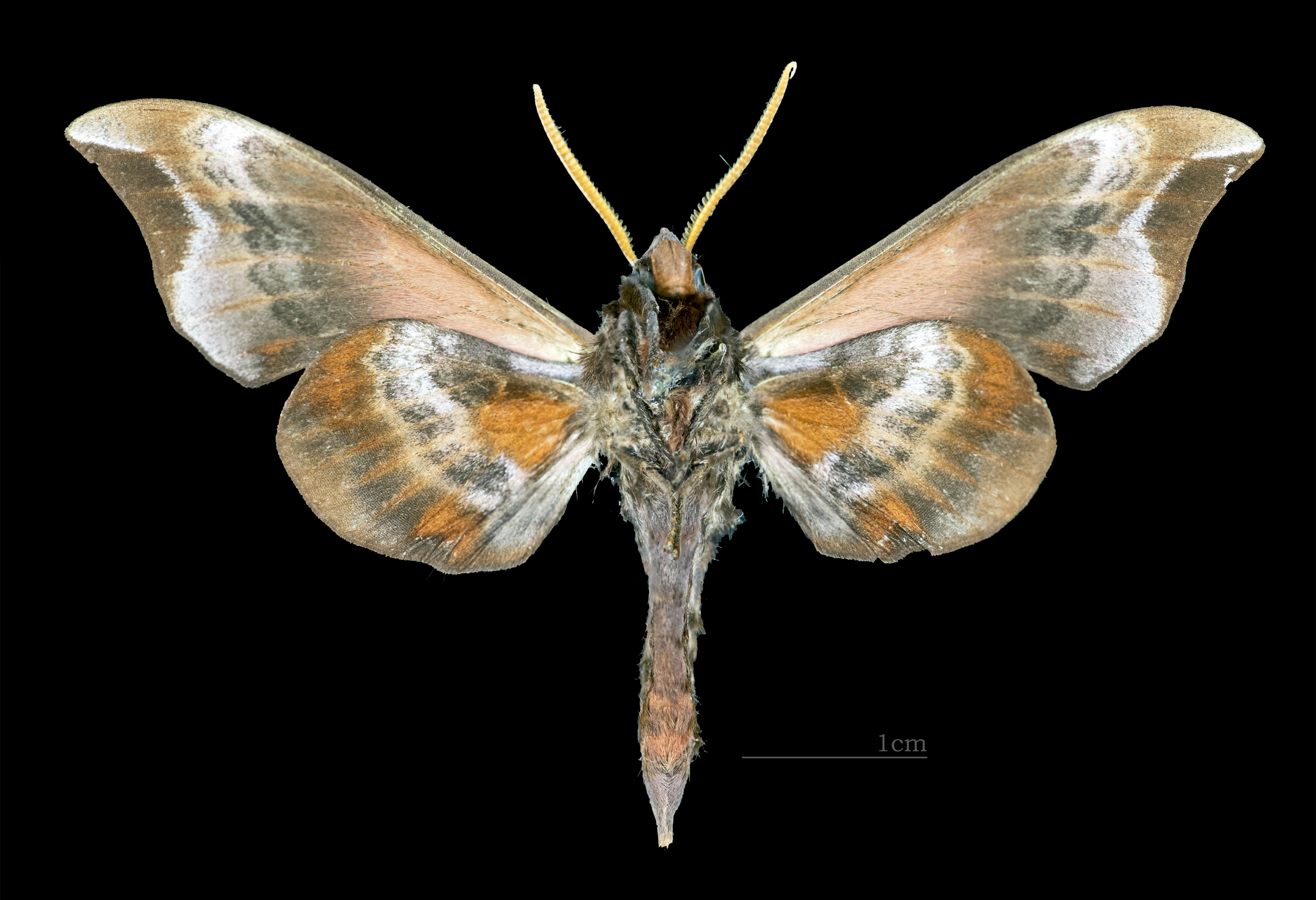 Smerinthus szechuanus - △ Ventral side Collection of the Mathematician Laurent Schwartz